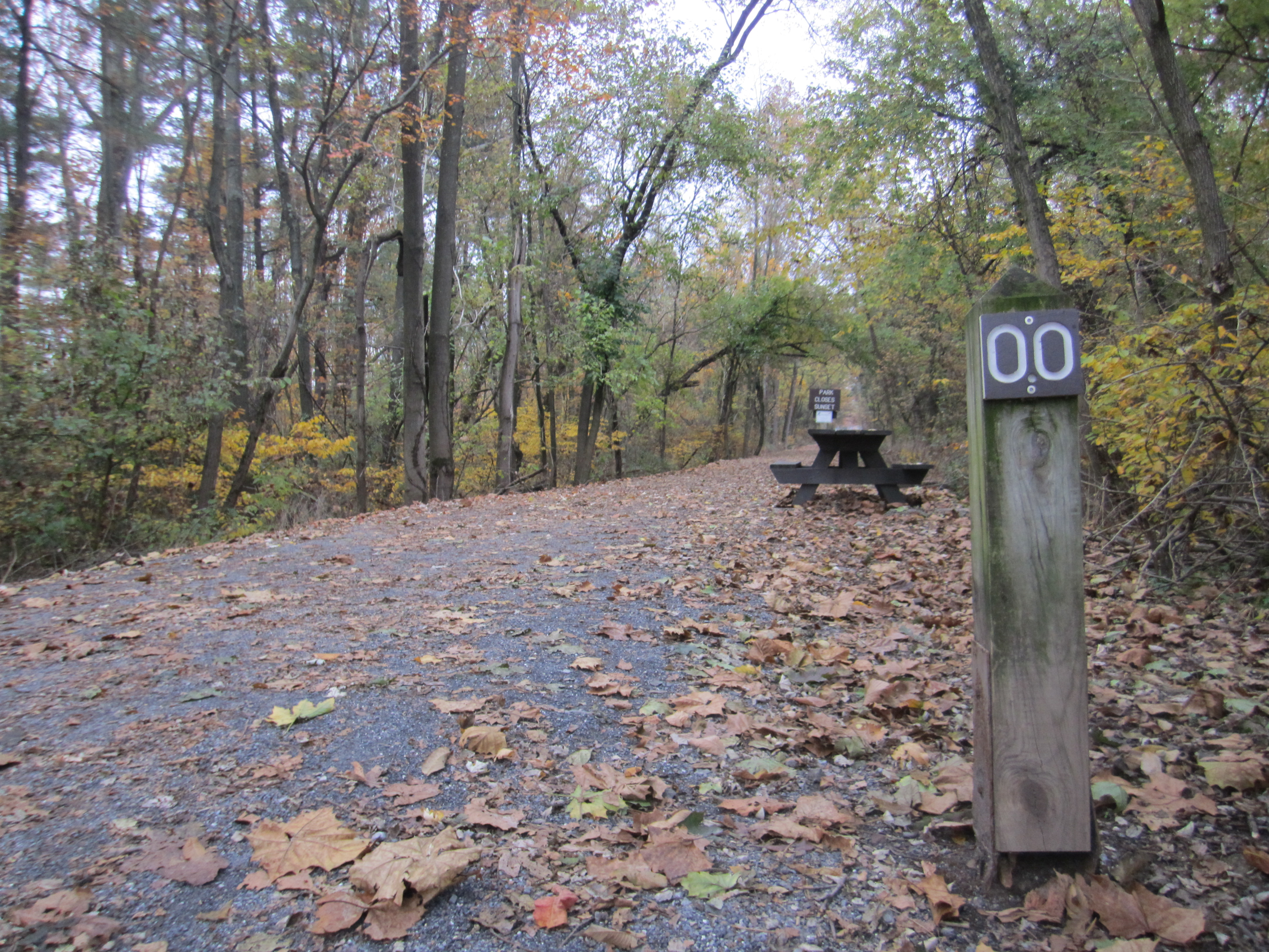 Photo of the begining of the Conewago trail at trailhead 230.